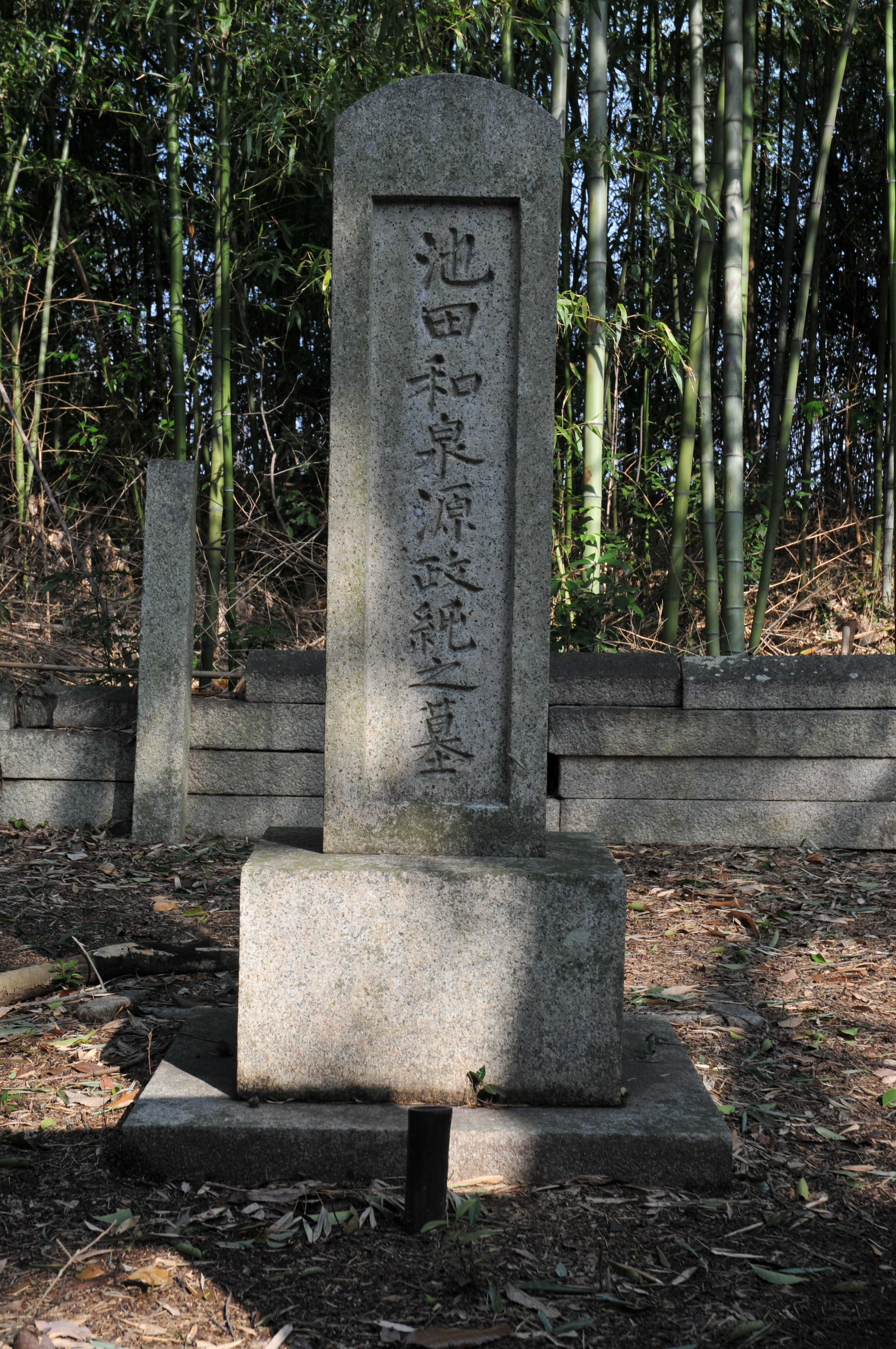 grave of Ikeda Masazumi(5th family head)